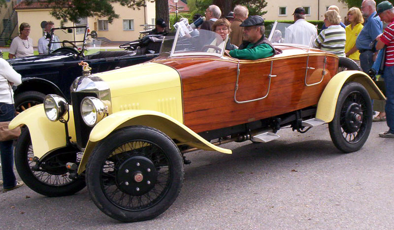 Unic Sport 1924.